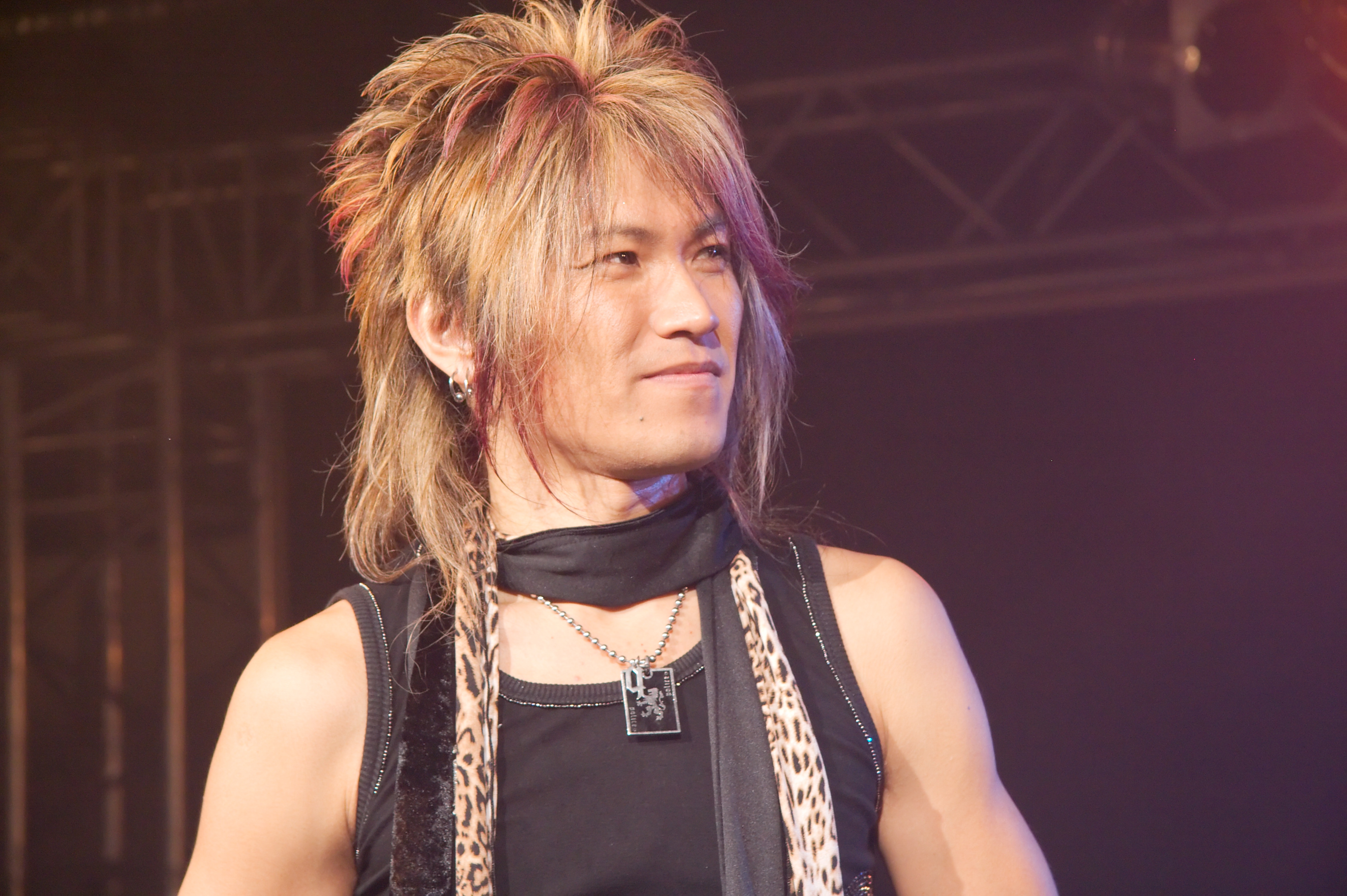 JAM Project live at Chibi Japan Expo 2008 (Paris, France).